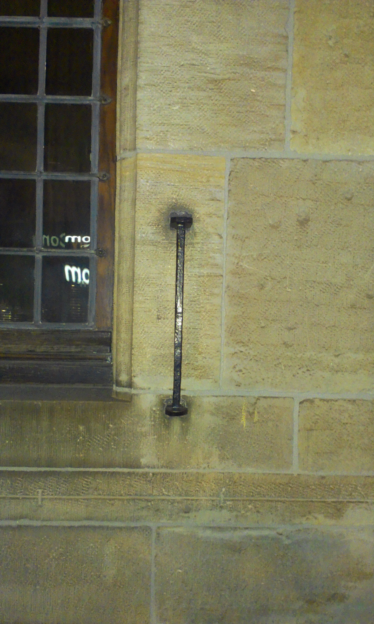 An iron bar measuring exactly one Rhenish foot on the facade of Leydens townhall put there for calibration purposes.